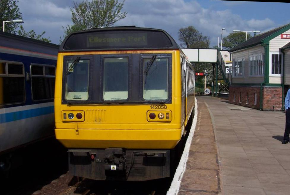 A class 142 (To Ellemere Port) and class 150 (to Liverpool Lime Street)stand at Platforms 3+4 at Helsby.